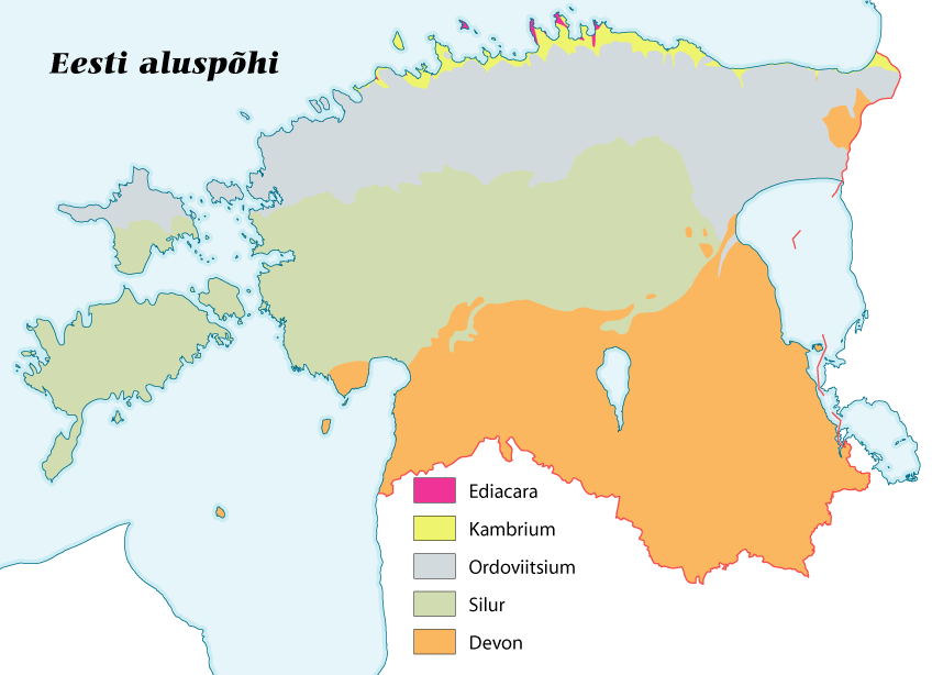 Exposure areas of bedrock systems in Estonia